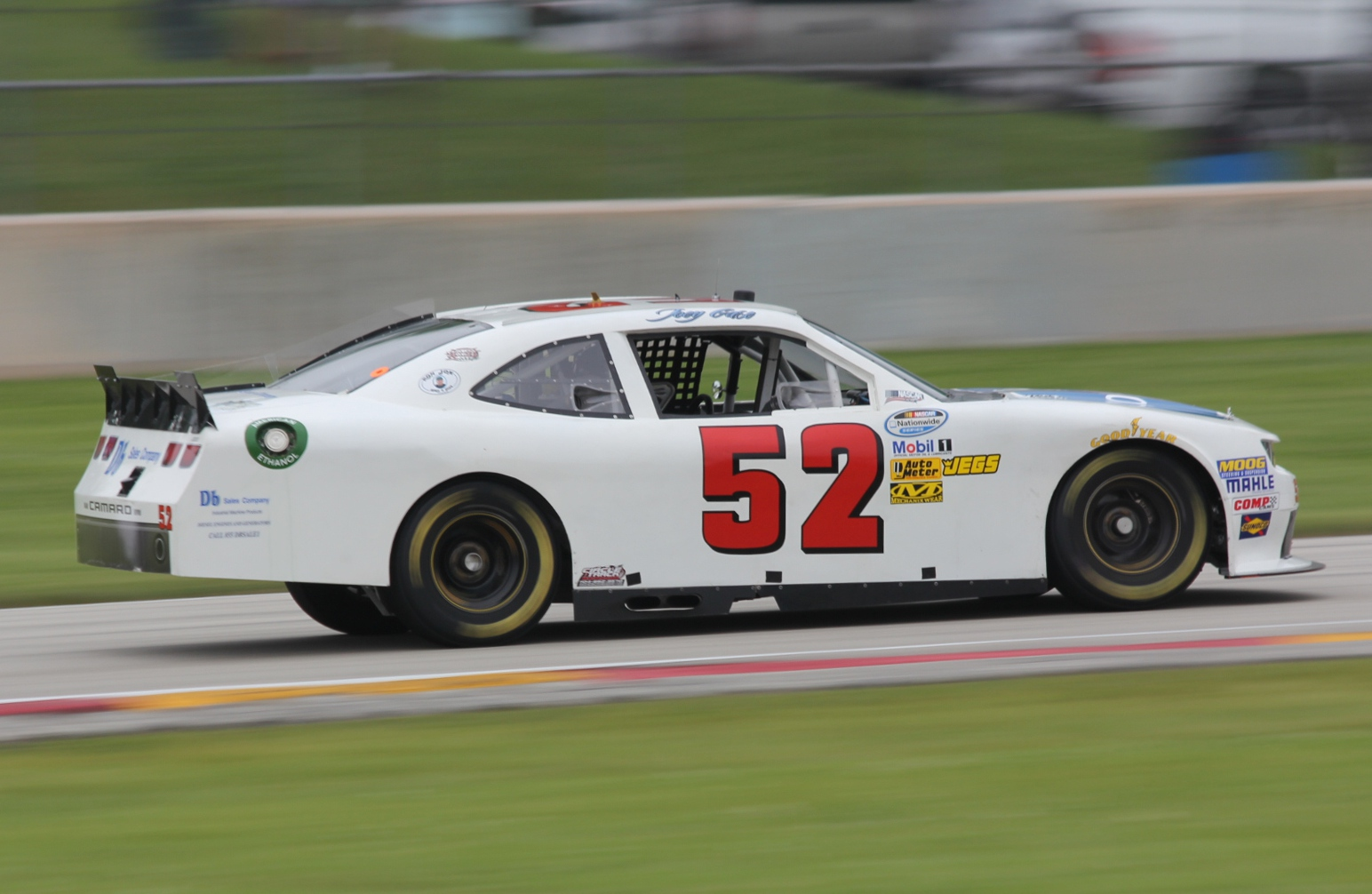 The passenger side of Joey Gase Nationwide car during the 2014 Gardner Denver 200 at Road America. Taken between turns 13 and 14.